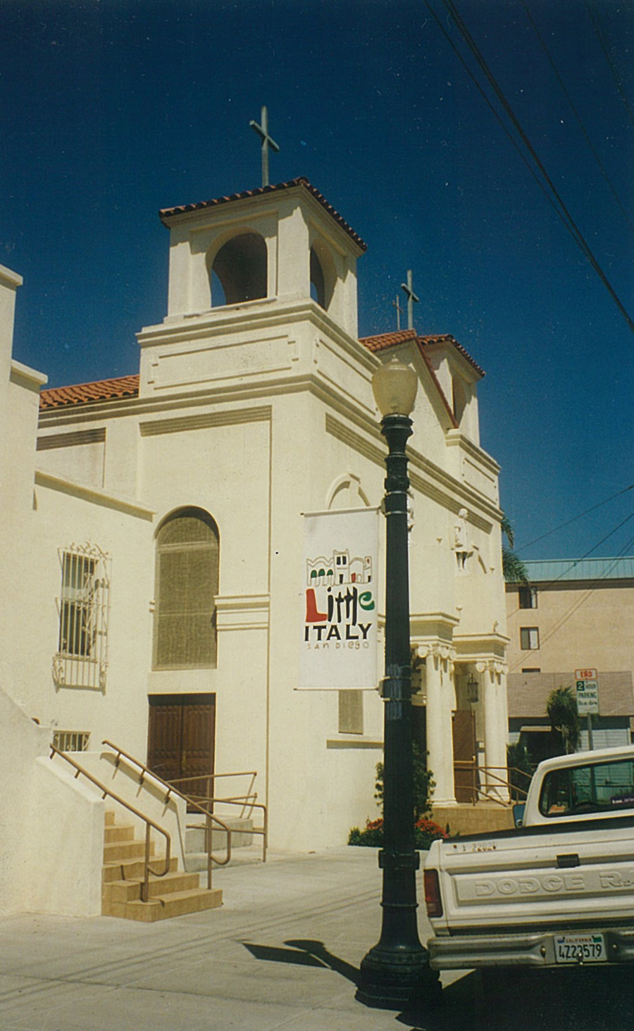 Our Lady of the Rosary parish in San Diego (CA)